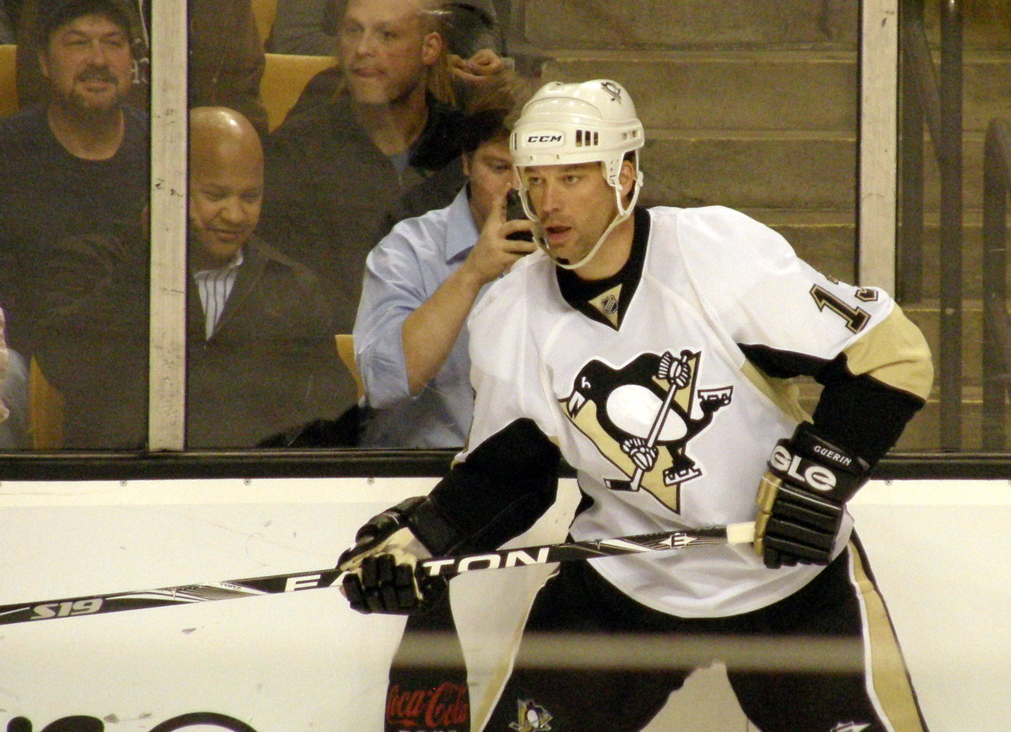 13, Bill Guerin, RW, PIT Pittsburgh Penguins at (vs) Boston Bruins, TD Banknorth Garden (Boston Garden), March 18, 2010